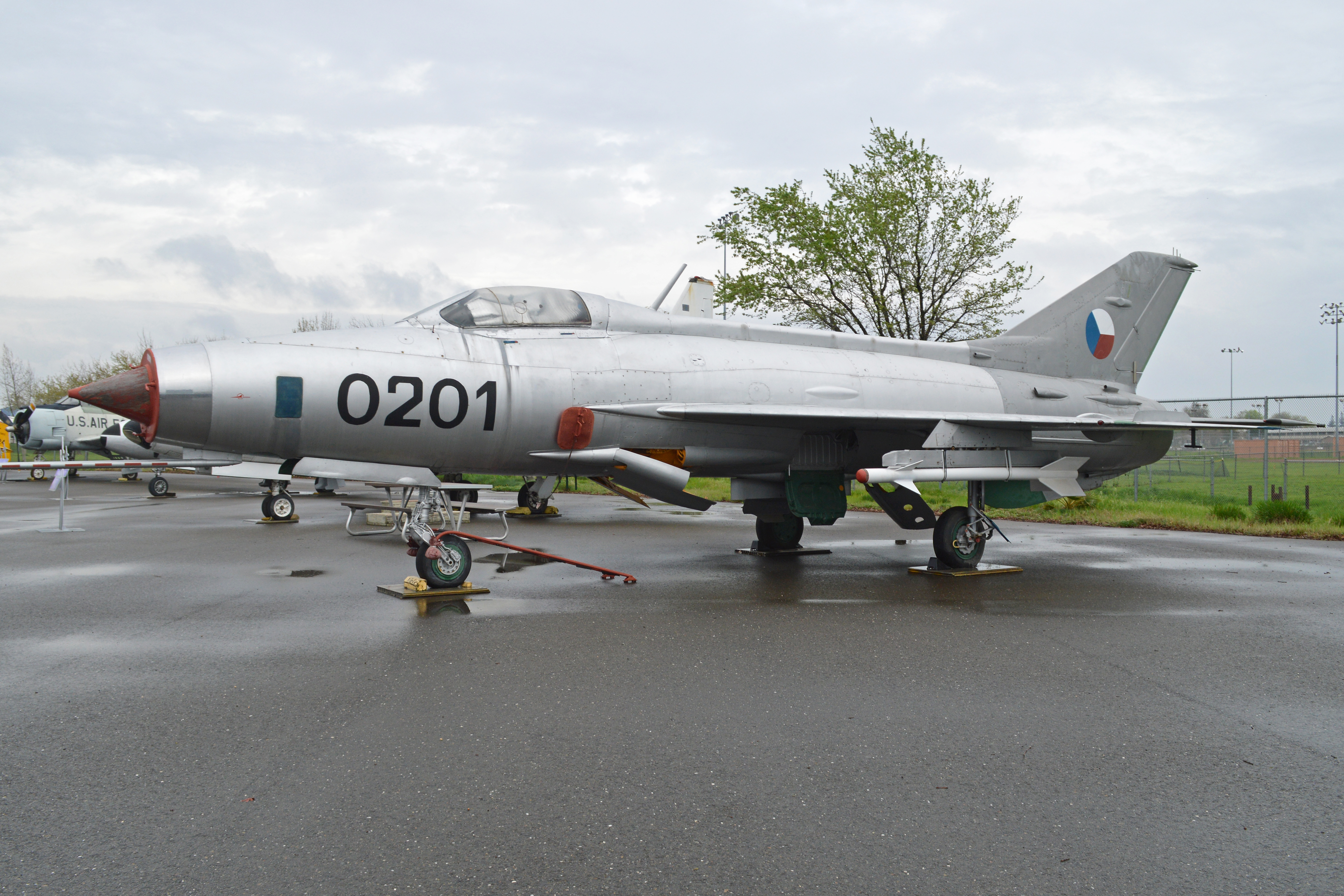 c/n 460201. In genuine Czech Air Force markings as ‘0201’. On display at the Aerospace Museum of California, McClellan Airport, CA. 4th March 2016